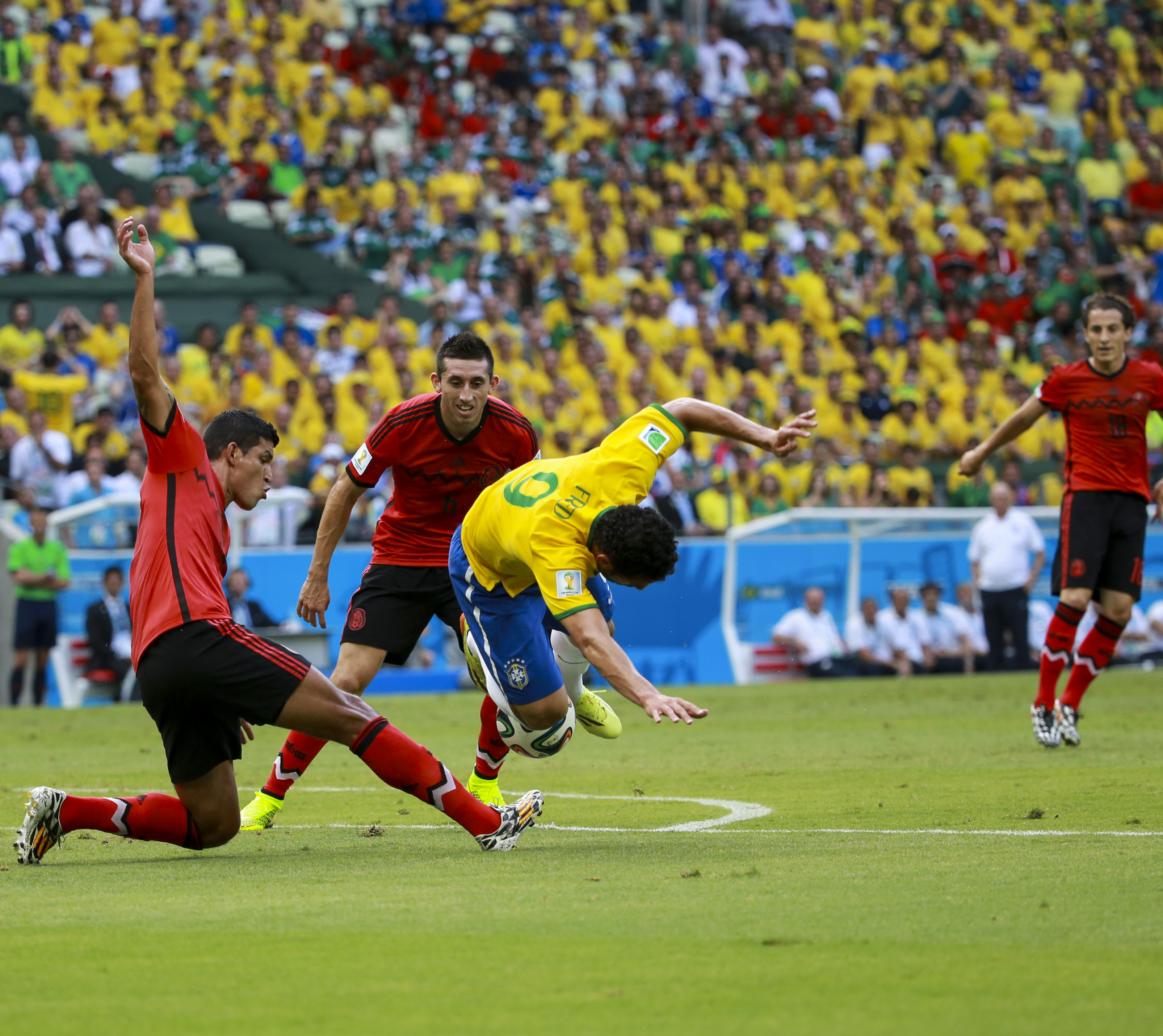 Brazil and Mexico match at the FIFA World Cup 2014-06-17